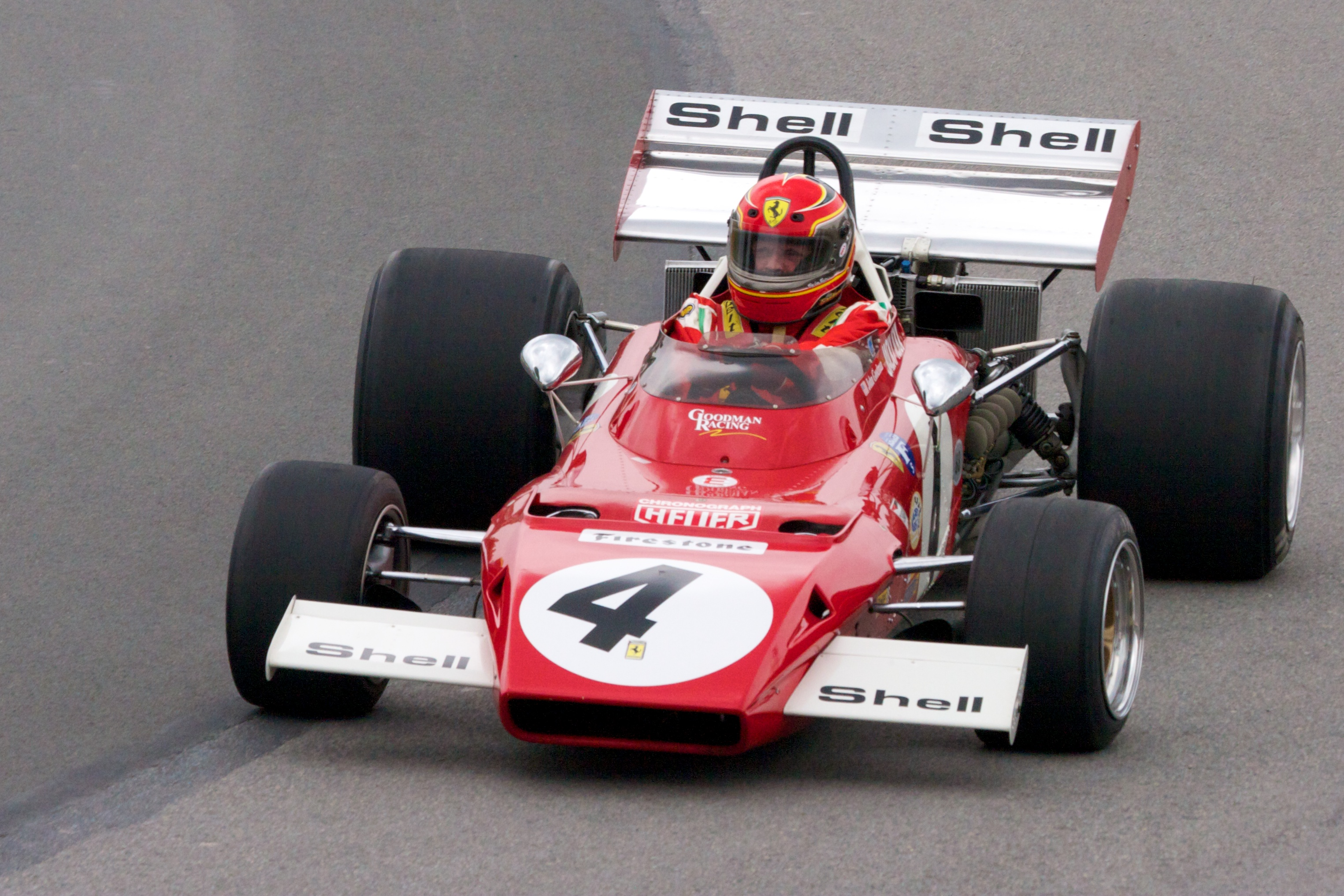 Jacky Ickx's Ferrari 312B2 at the Histric race during the 2010 Canadian GP.